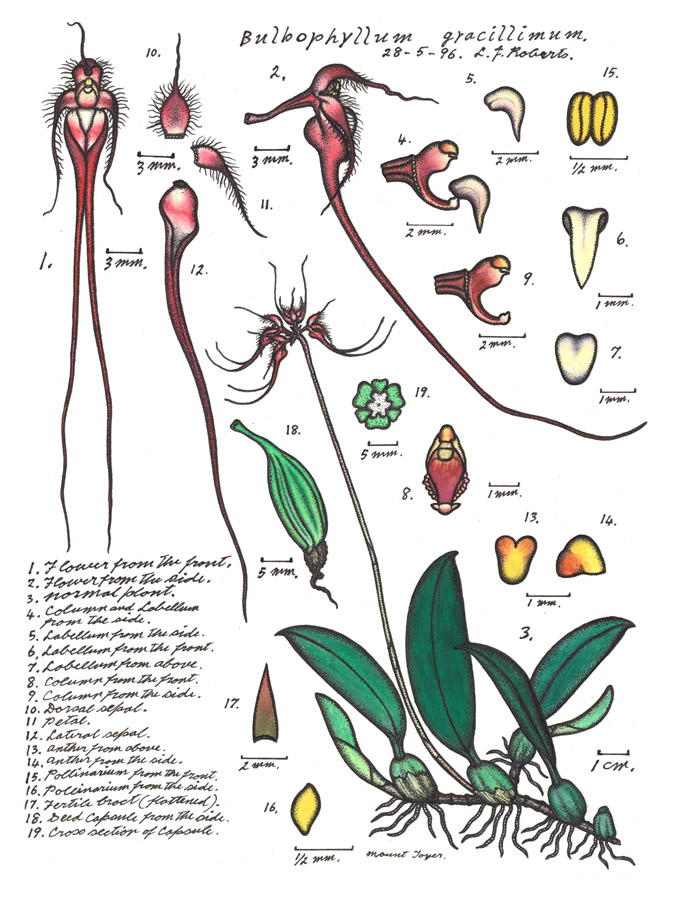 This image is one of a series by Lewis Roberts